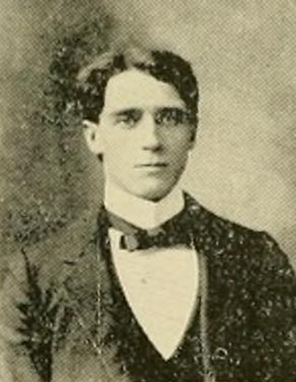 L. A. Yeager, WVU